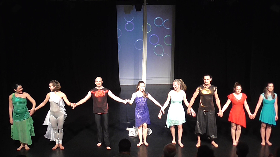 Medic'all Art Dance Company: MediCirque play